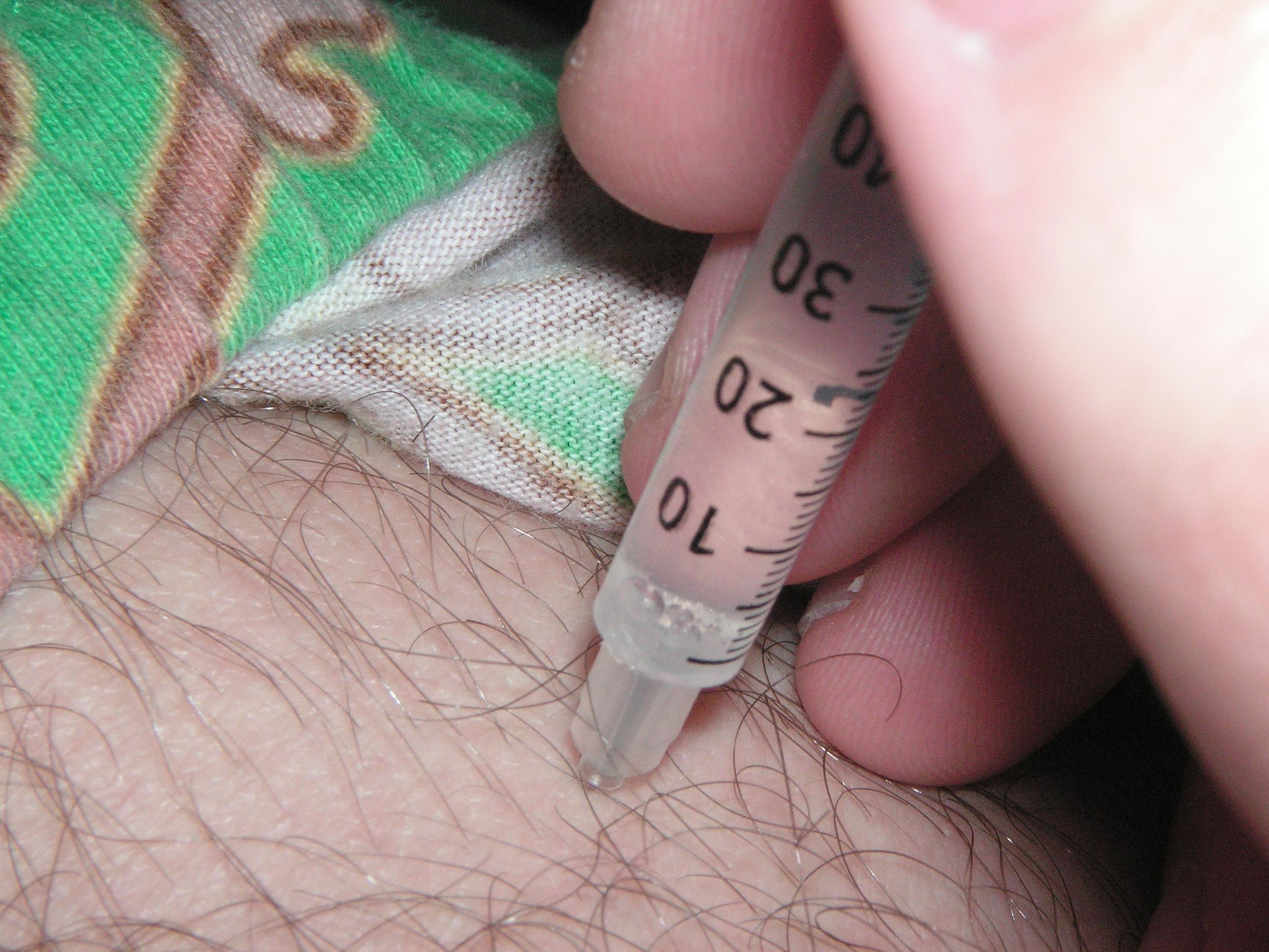 Intramuscular injection into the Vastus Lateralis